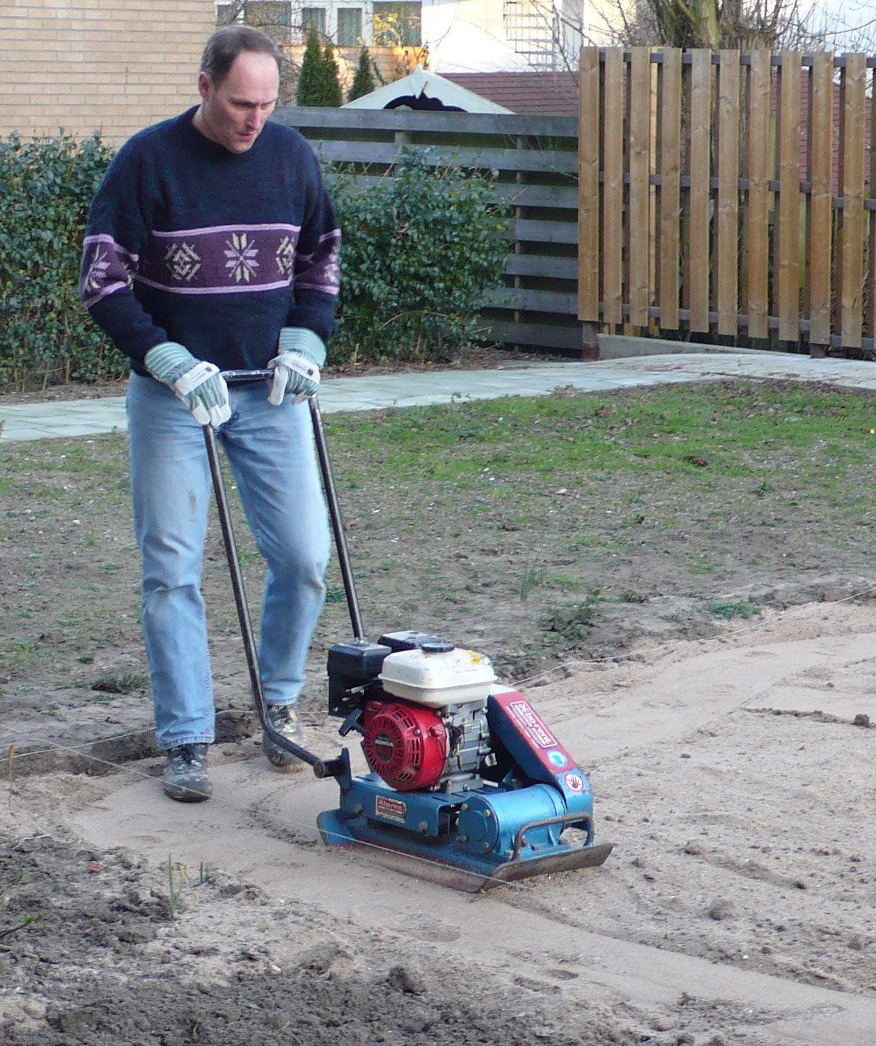 Vibrating device for road construction